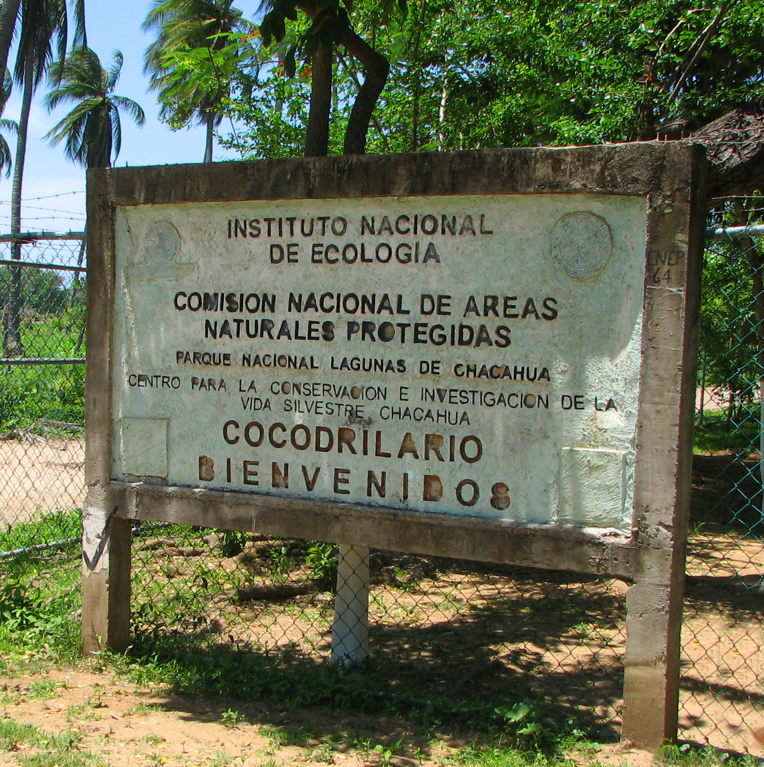 The Instituto Nacional de Ecologia (crocodile farm). Located in the Lagunas de Chacahua National Park, Oaxaca, southwestern México.